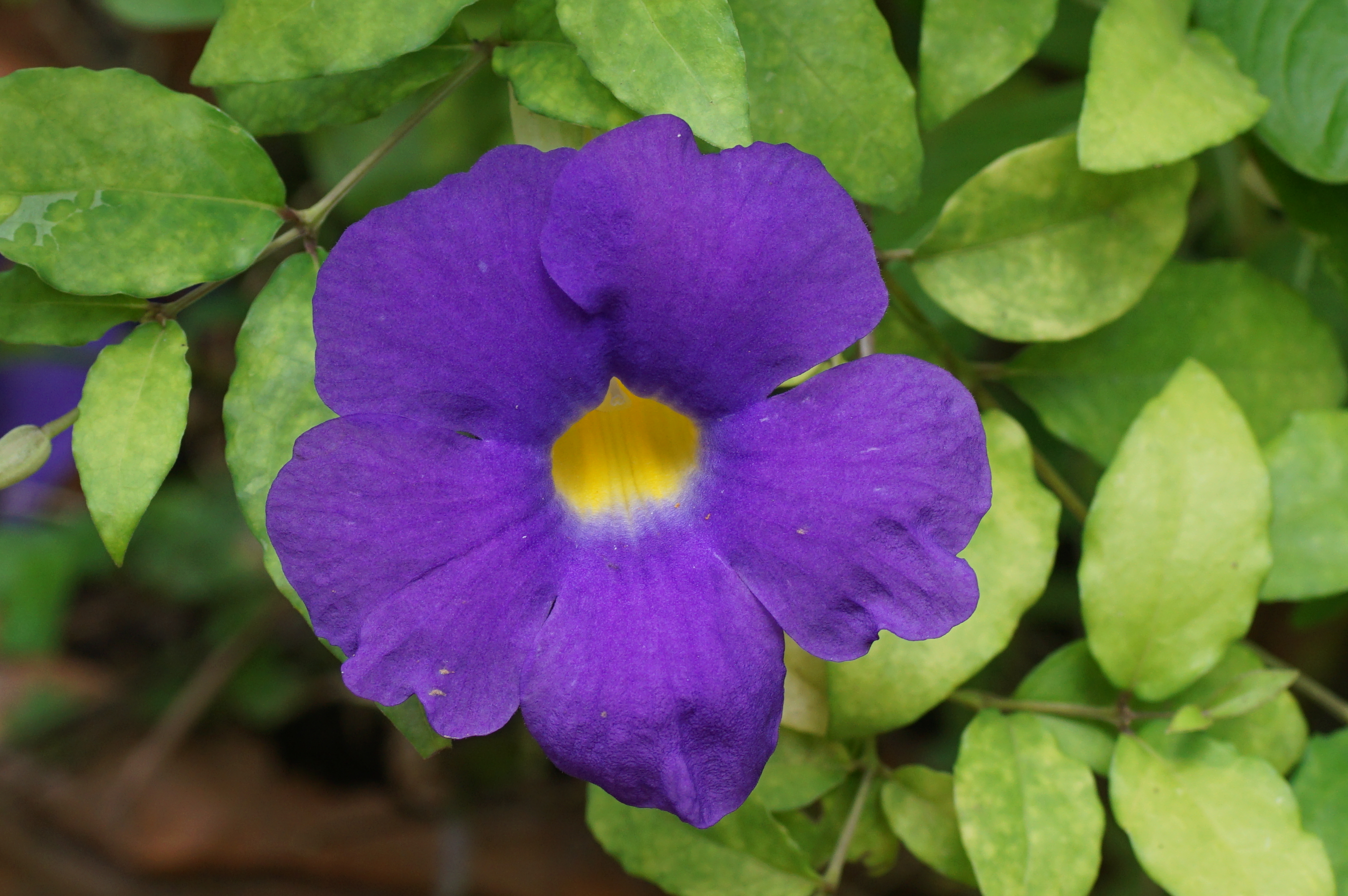 Thunbergia erecta